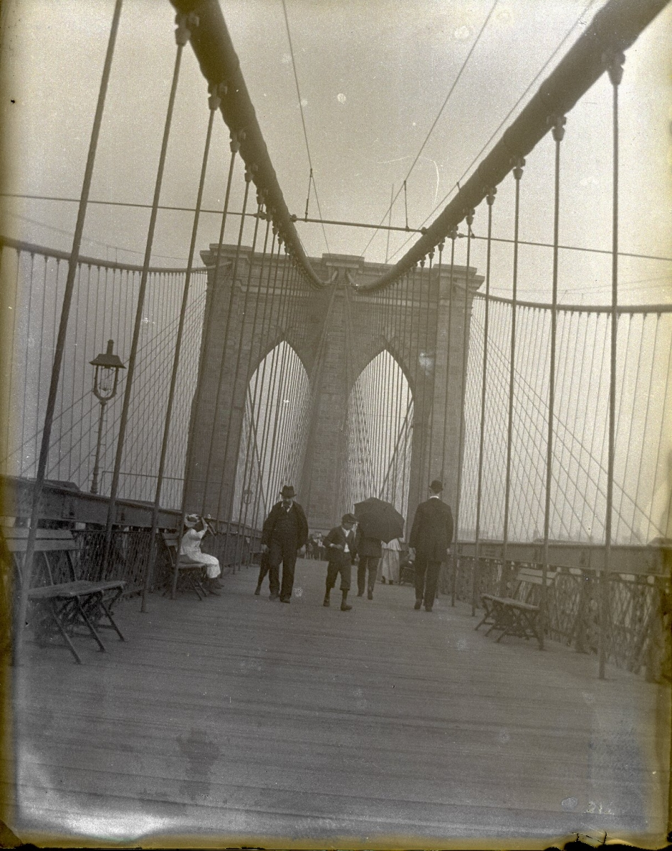 Edgar S. Thomson (American, active 1890s-1900s). Brooklyn Bridge, 1895. Glass plate negative, 4 x 5 in. (10.2 x 12.7 cm). Prints, Drawings and Photographs. Brooklyn Museum/Brooklyn Public Library, Brooklyn Collection, 1996.164.7-20. (1996.164.7-20_glass_SL1.jpg) Thank you, erobey! This image has been geotagged by erobey so Brooklyn could be part of the Historypin launch on July 11, 2011. Want to help? See if you can place any of these images on a map! More about #mapBK